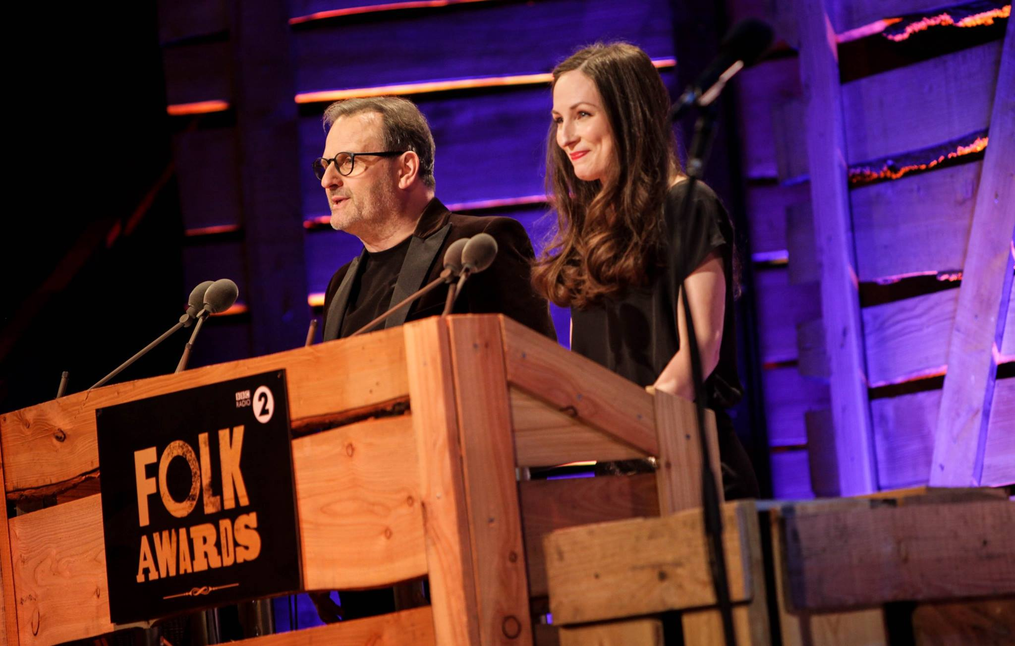 Mark Radcliffe and Julie Fowlis host the 2016 BBC Radio 2 Folk Awards